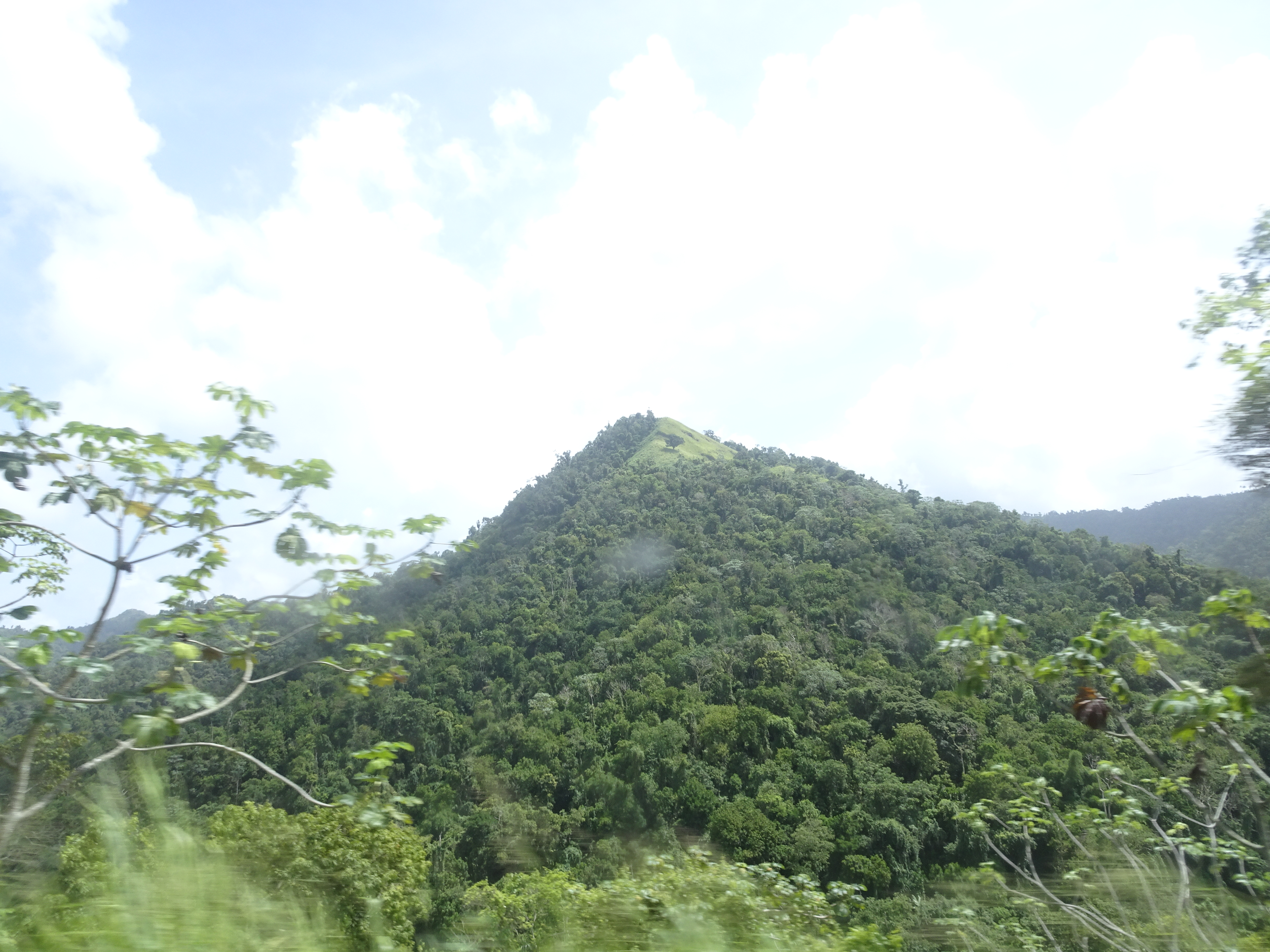 Cerro del Diablo, Bo. Tibes, Ponce, Puerto Rico, visto desde la PR-10, mirando al este (DSC01738)